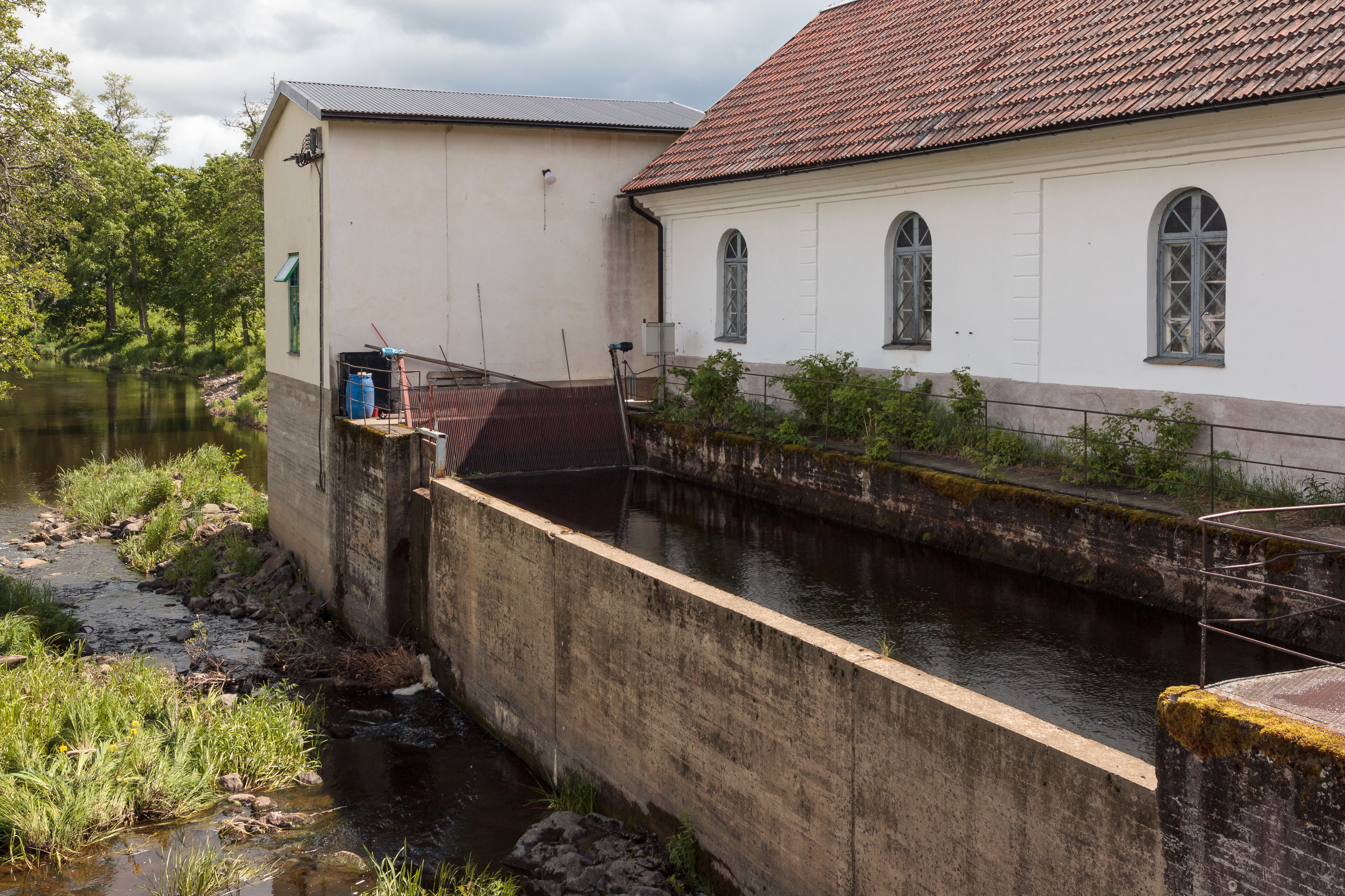 Hydroelectric power plant in stream Tämnarån, part of the house is now an art gallery, at former ironworks Strömsbergs bruk, Tierp Municipality, Sweden.